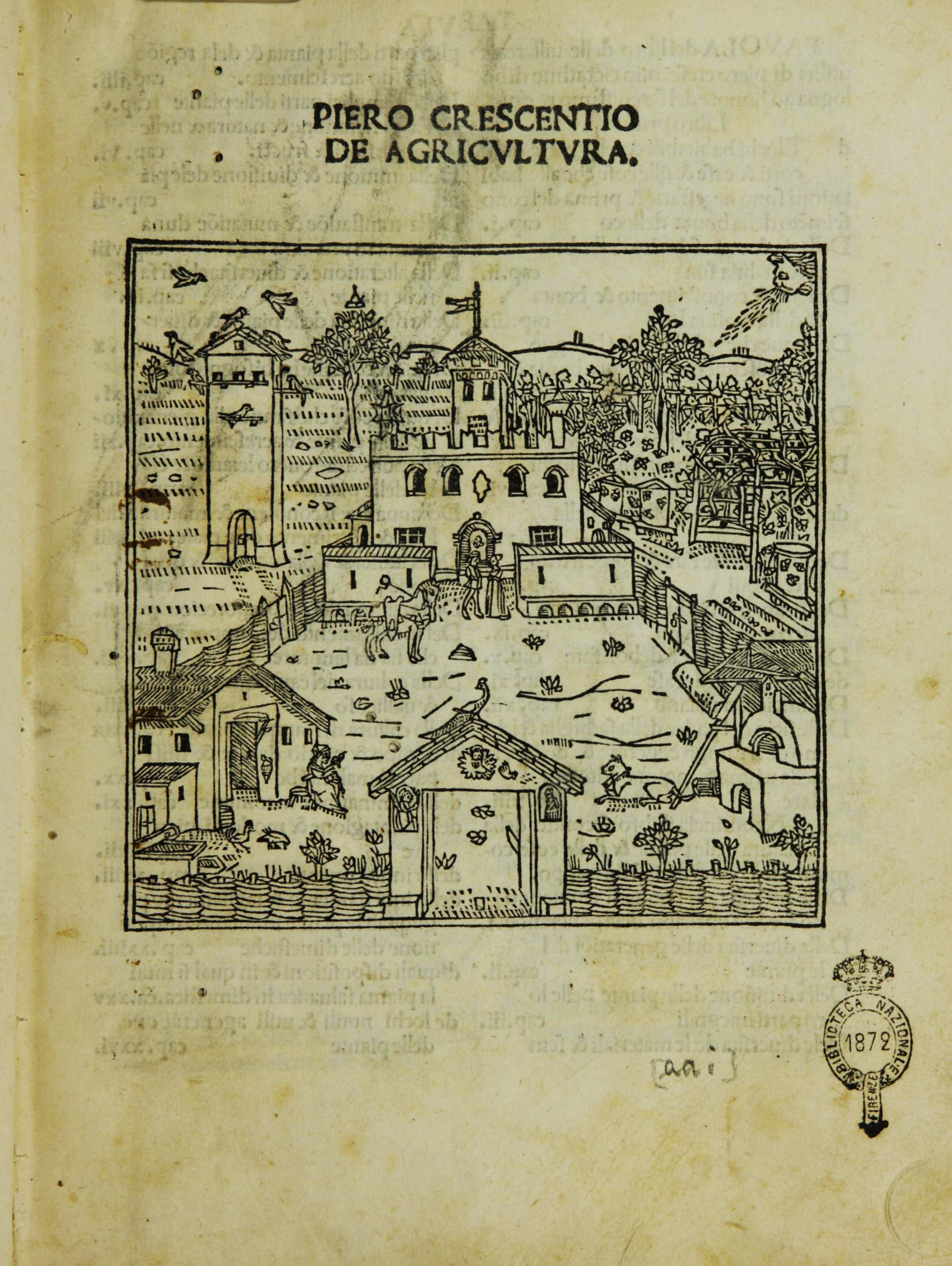 Frontispiece of Piero Crescentio, De agricultura, printed by Matteo Capcasa, Venice 1495